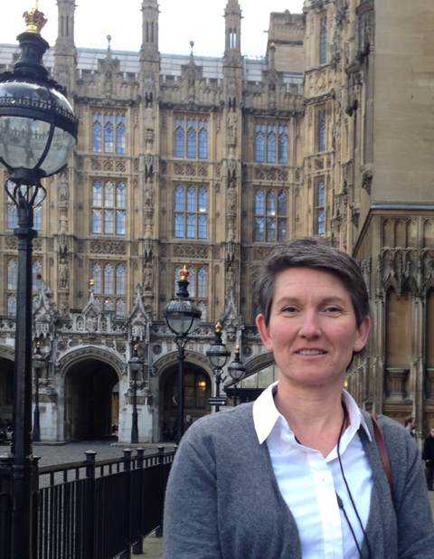 Beki Adam stands outside the Houses of Parliament in January 2015.